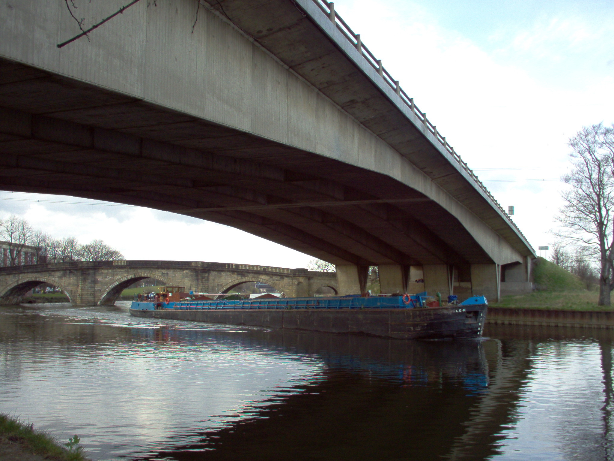 Took photo as the large barge was approaching Ferrybridge flood lock, Mike Reay